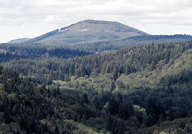 Bobs Mountain, Boring Volcanic Field — Hills of the Portland Basin - USGS